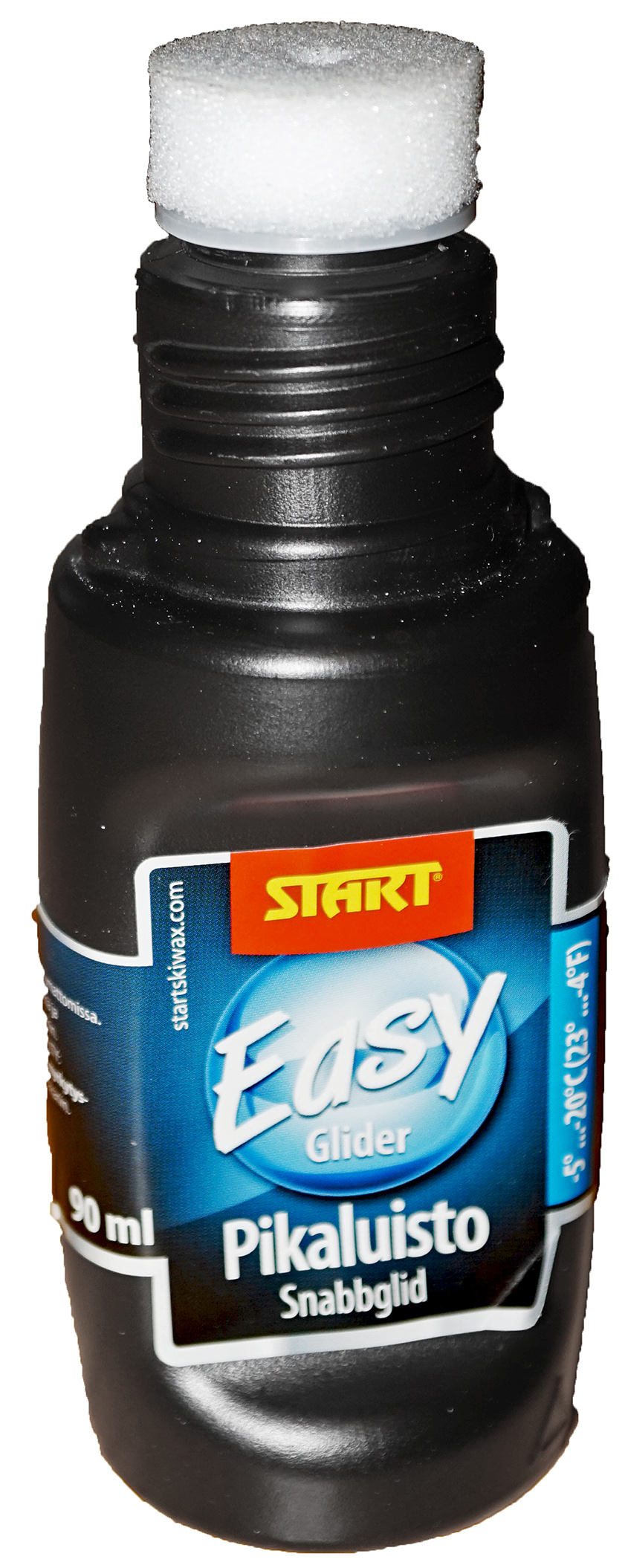 Easy glider ski wax by Start. For temperature between -5°C and -20°C. The wax is spread via the sponge, which is on the bottle top.